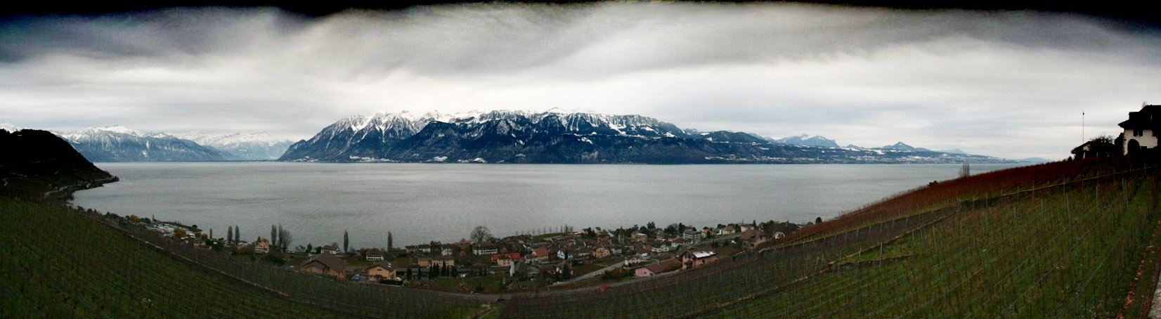 Lake Geneva and the village of Cully from the vineyards of Lavaux, Grandvaux (Switzerland)